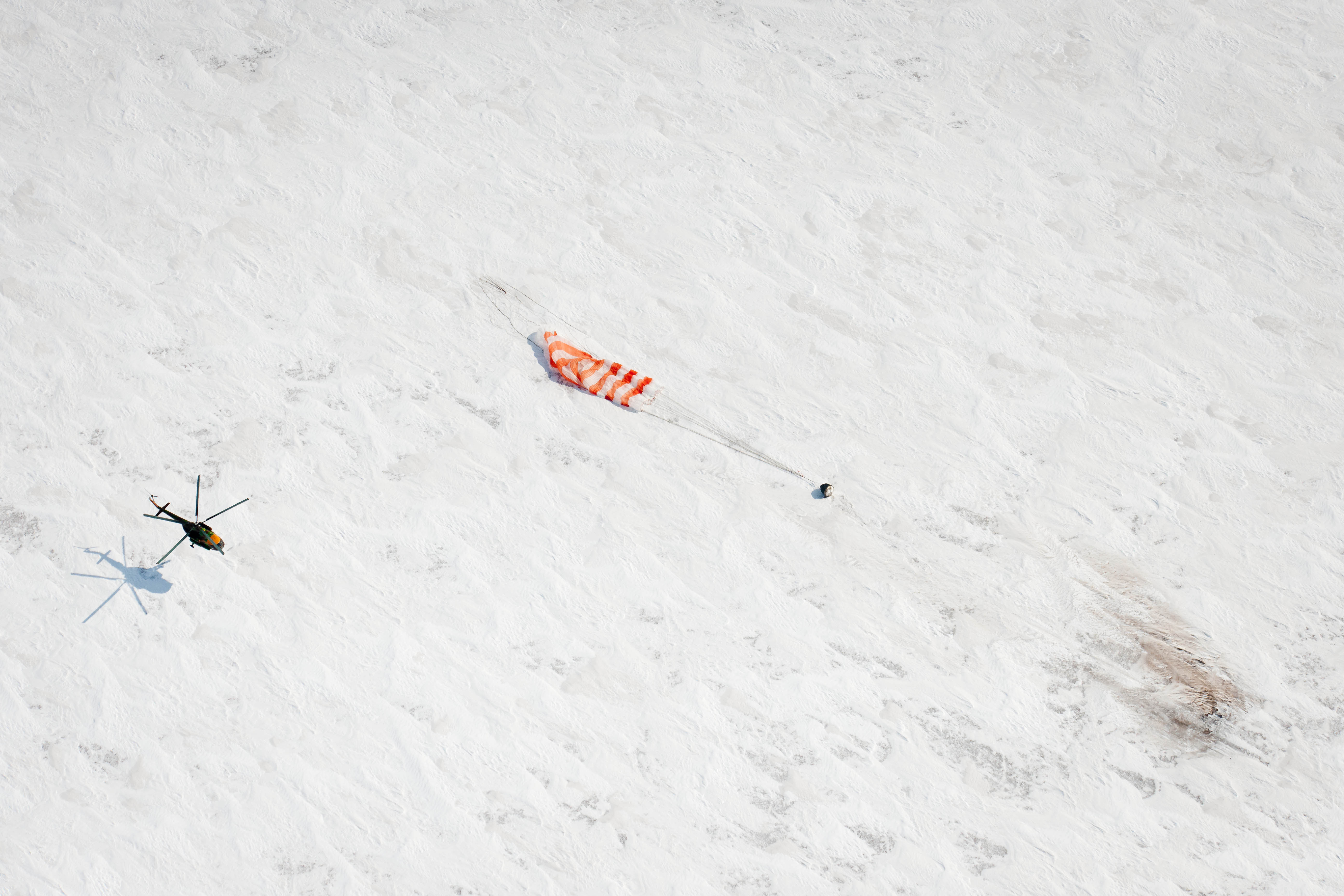 The Soyuz TMA-01M spacecraft is seen as it lands with NASA astronaut Scott Kelly, Expedition 26 commander; and Russian cosmonauts Oleg Skripochka and Alexander Kaleri, both flight engineers, near the town of Arkalyk, Kazakhstan on March 16, 2011. Kelly, Skripochka and Kaleri are returning from almost six months onboard the International Space Station where they served as members of the Expedition 25 and 26 crews.